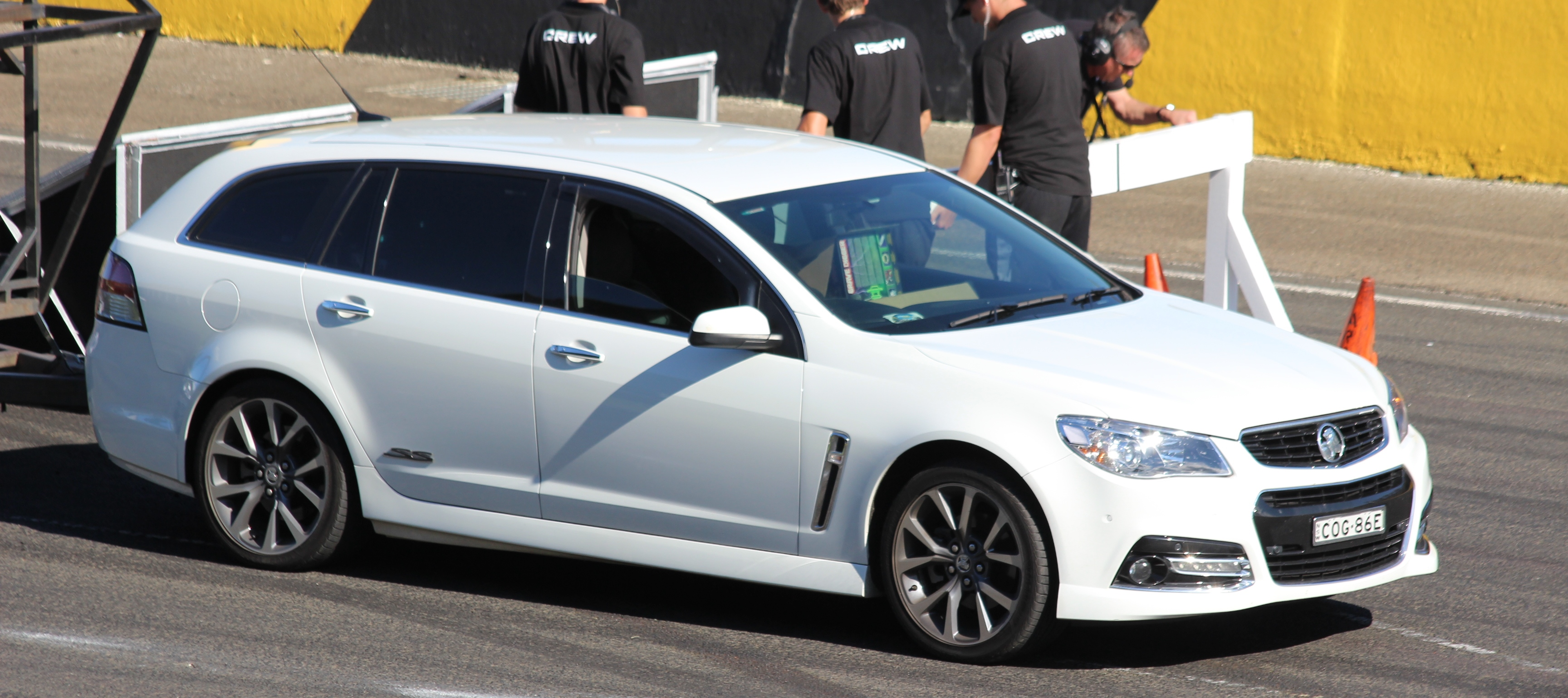 2013 Holden Commodore (VF) SS V Sportwagon used as a utility vehicle at the 2014 Top Gear Festival at Sydney Motorsport Park.